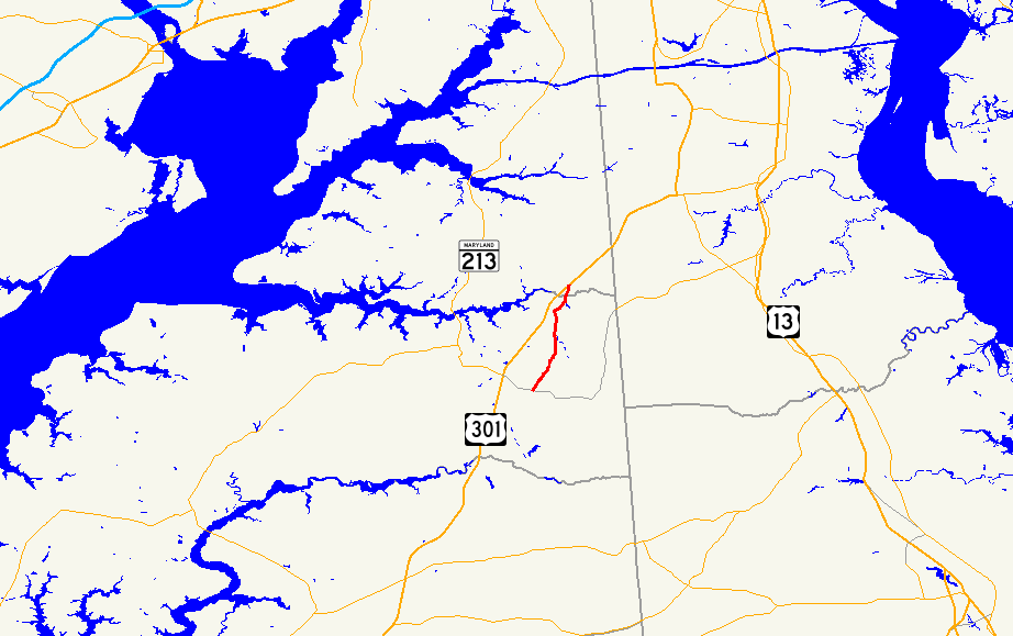 Map of Maryland Route 299